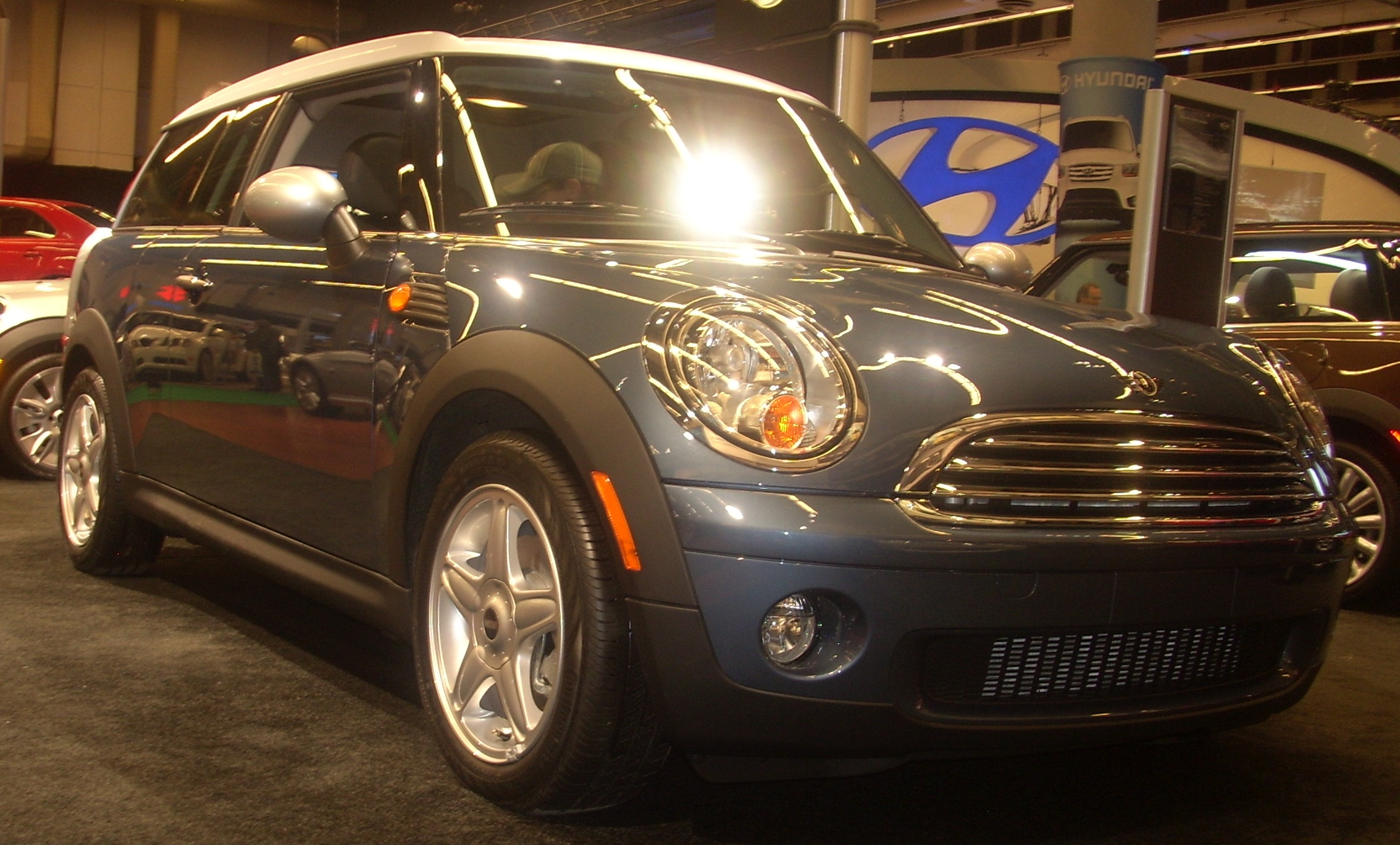 2010 Mini Clubman photographed in Montreal, Quebec, Canada at the 2010 Montreal International Auto Show.